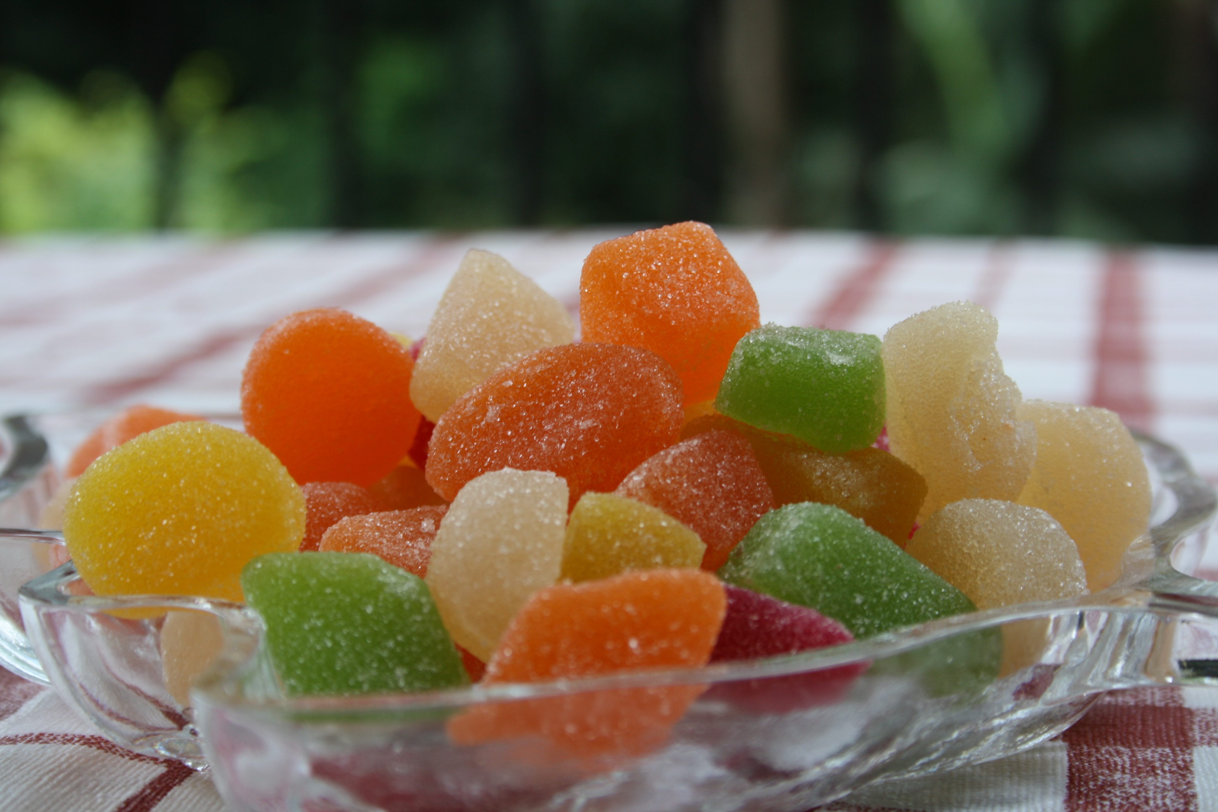 Jube confectionery, Australia.